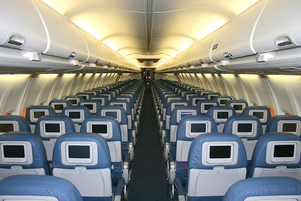 New interior on Delta Air Lines' Boeing 737-800 fleet.